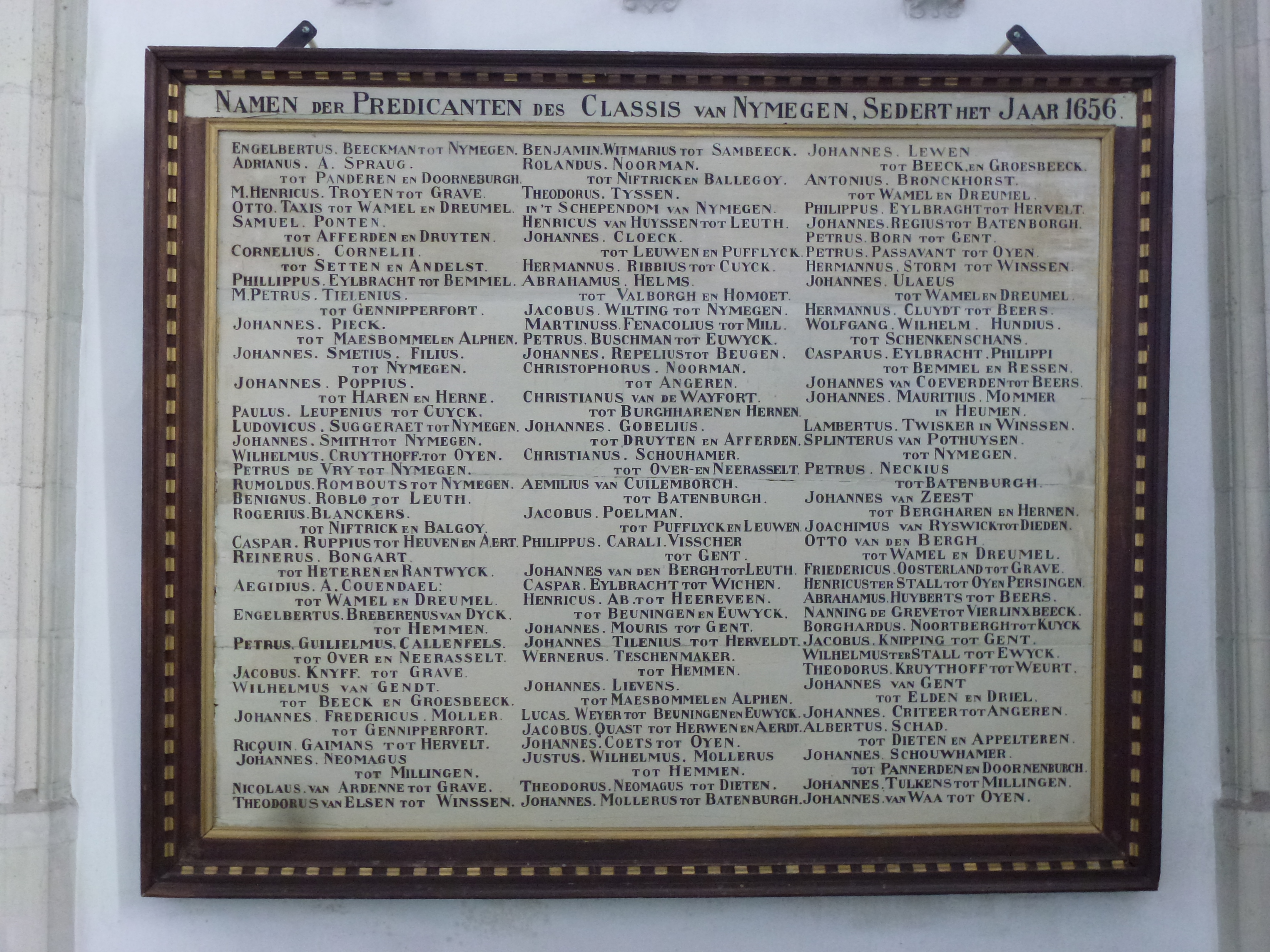 Nijmegen St Stevenskerk lijsten van predikanten 05